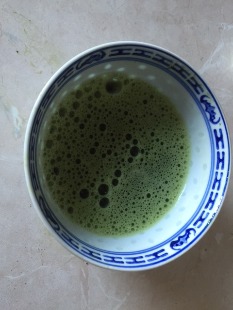 Шоља зеленог чаја Matcha